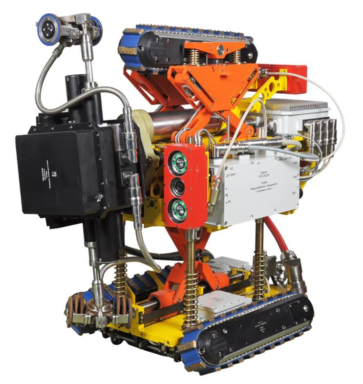 Diakont RODIS crawler with EMAT tool attached